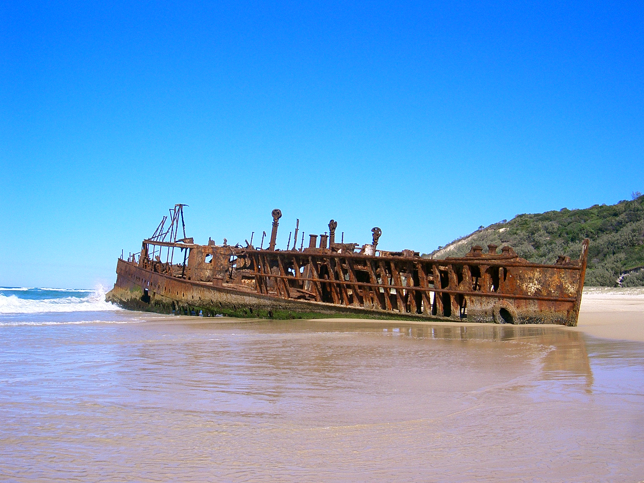 Wreck at the beach of Fraser Island